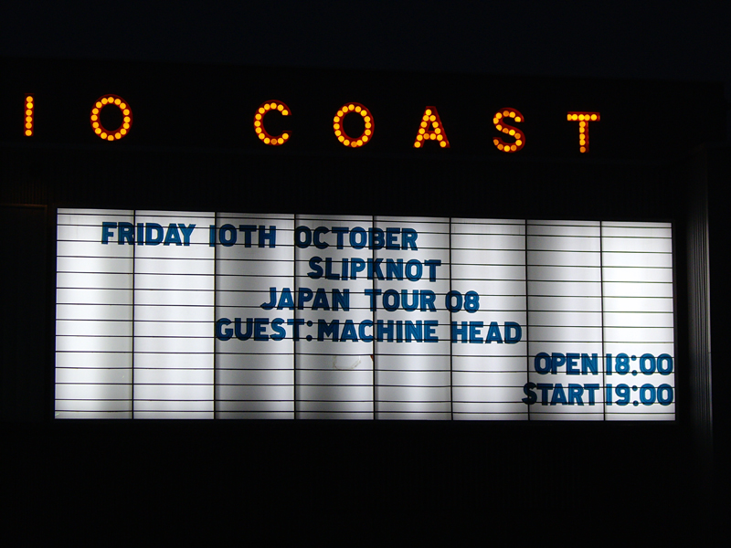 @The Studio Coast, Shinkiba, Tokyo Japan One of my fav. bands Slipknot is now touring around in Japan:) I went to see the 1st show in Tokyo on Oct. 10, 2008 and it was blast!!!